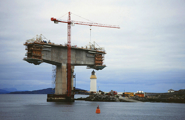 The Skye Bridge under construction